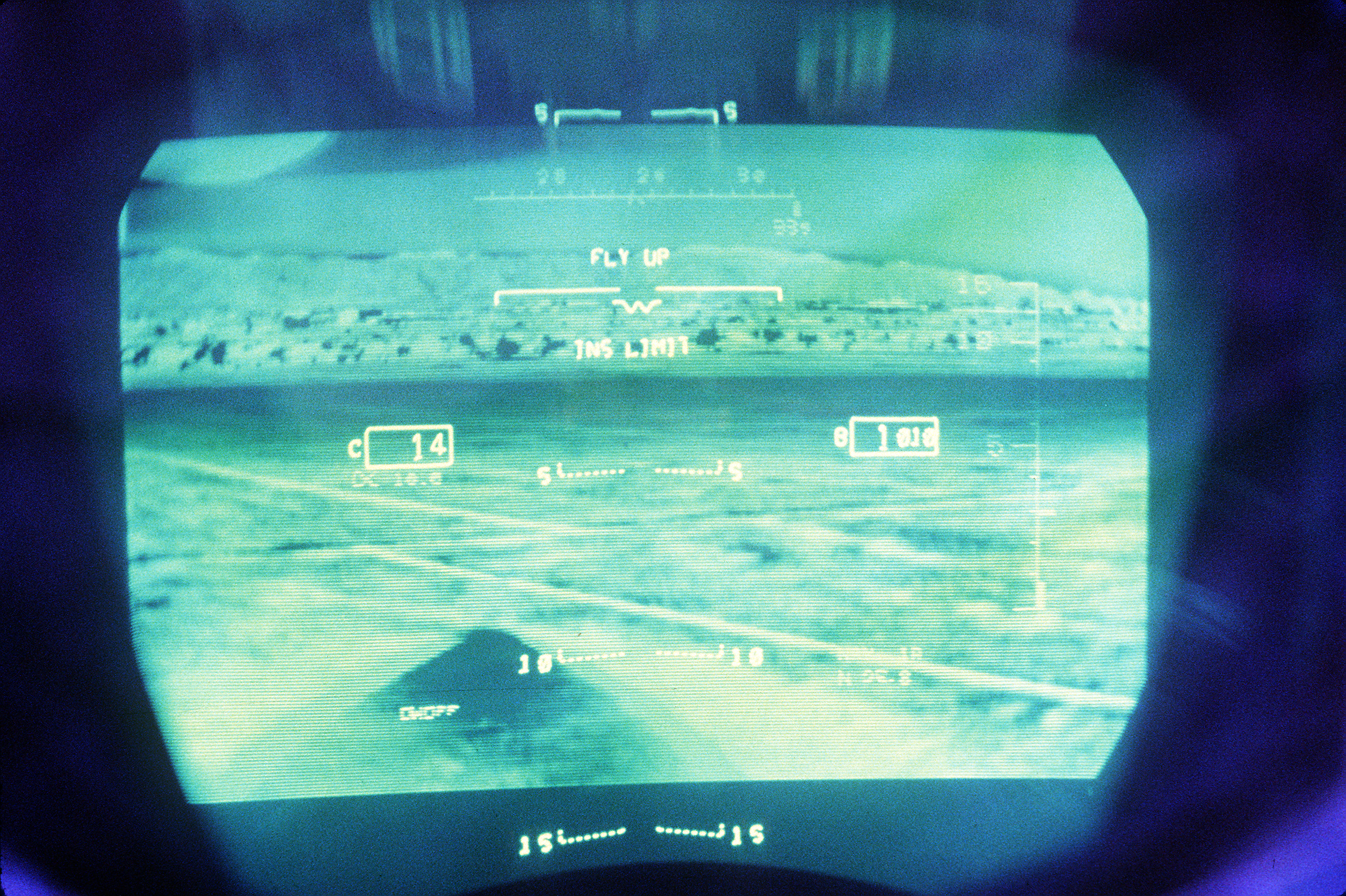 Using the low-altitude navigation and targeting infrared for night (LANTIRN) system, an infrared image is projected onto the heads up display (HUD) of an F-15E Eagle aircraft. Location: LUKE AIR FORCE BASE, ARIZONA (AZ) UNITED STATES OF AMERICA (USA)